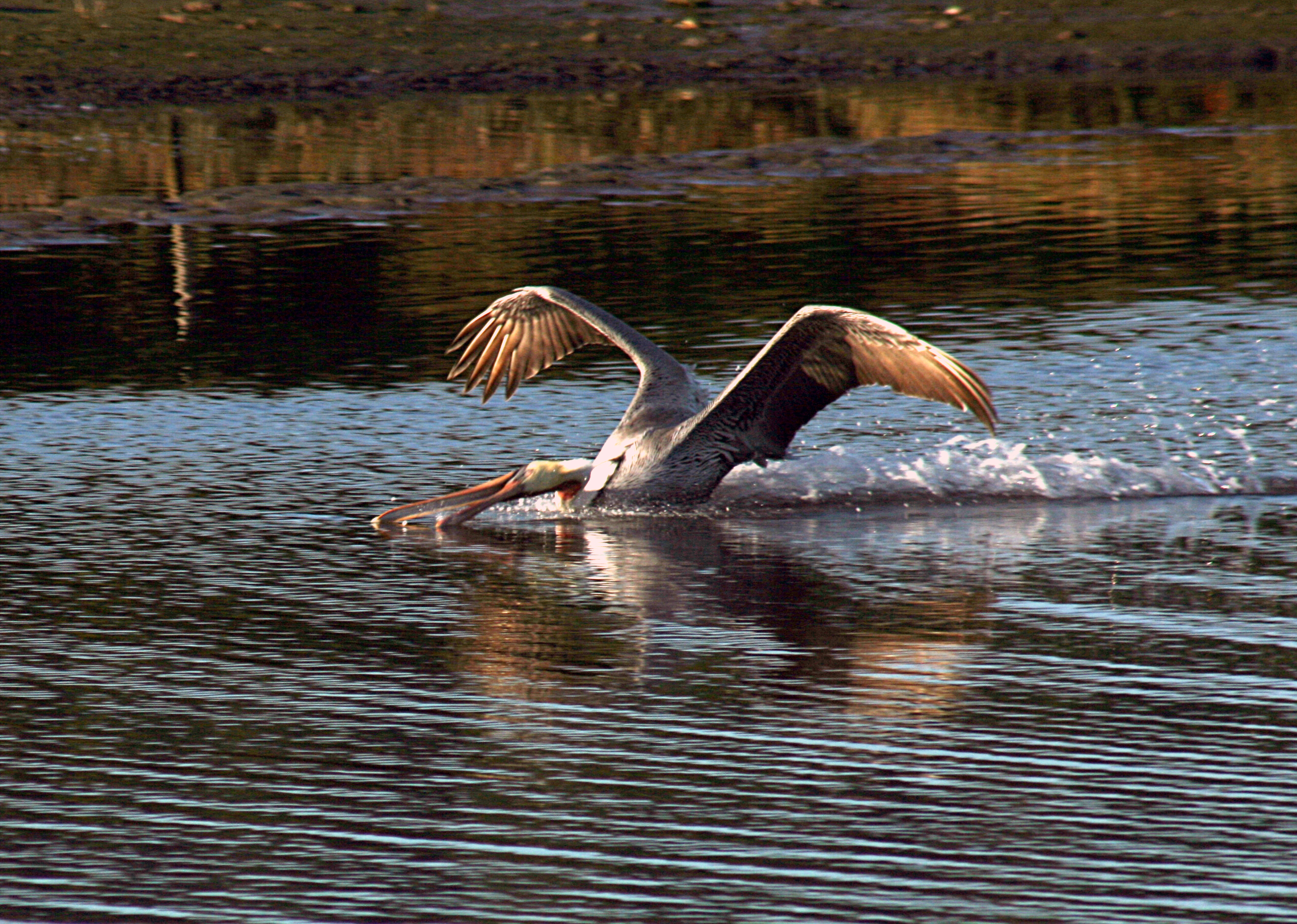 Fishing Brown Pelican Pelecanus occidentalis.